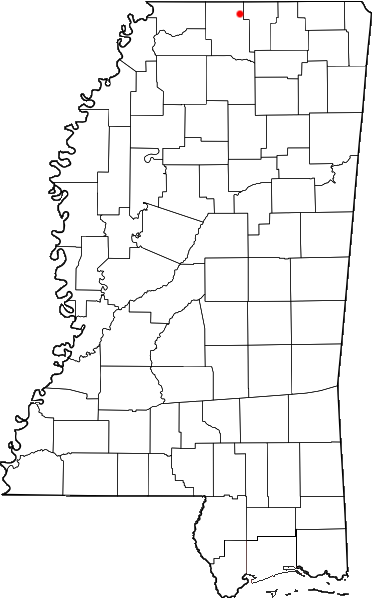 Hudsonville, Mississippi location map; created with the GIMP. Made by User:Acntx. Adapted from Wikipedia's Mississippi County Maps.